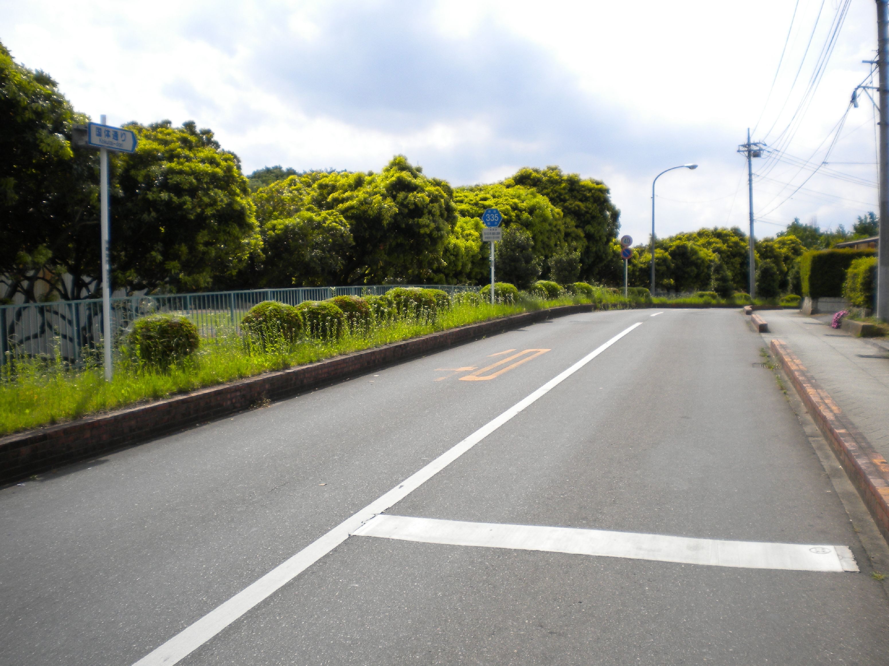 Tochigi prefectural road No.335 on Utsunomiya city